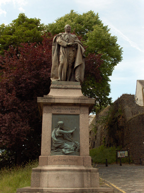 Campbell Bannerman statue, Stirling. Prime minister 1905 to 1908. MP for the burgh.